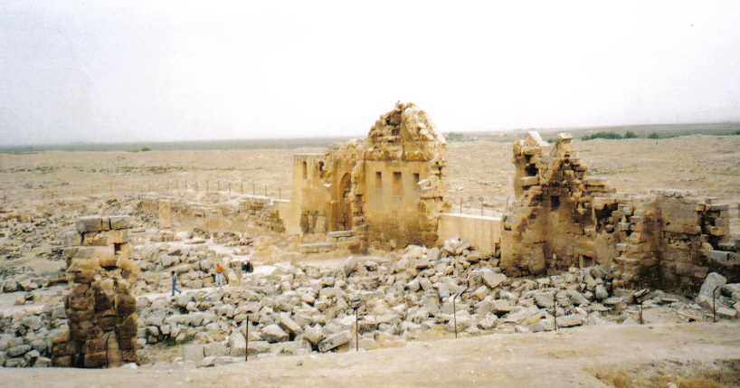 Ruins of the Ulu Cami at Harran, South Eastern Turkey (C) Gerry Lynch, 2003.